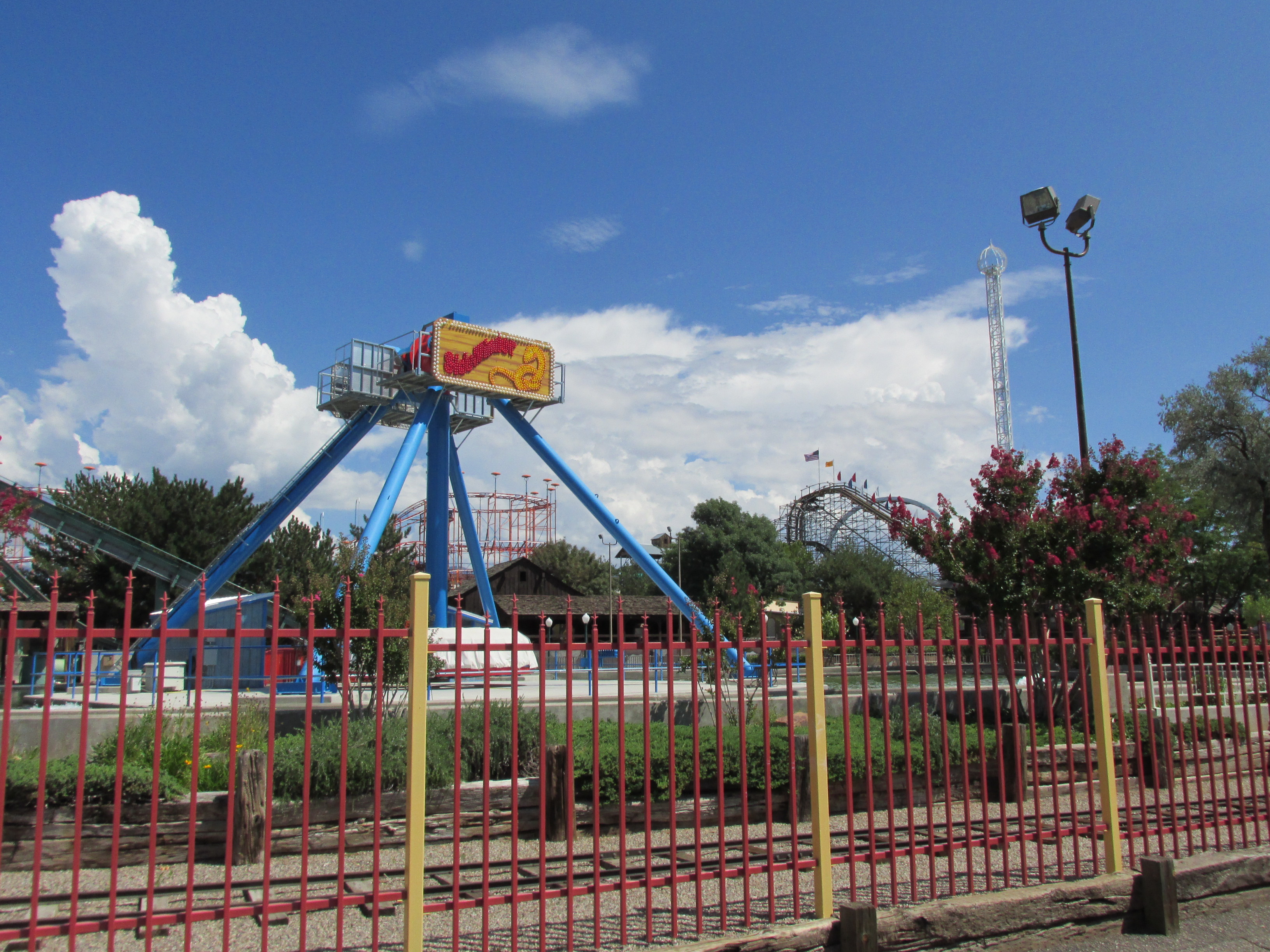 Cliffs Amusement Park, Albuquerque New Mexico